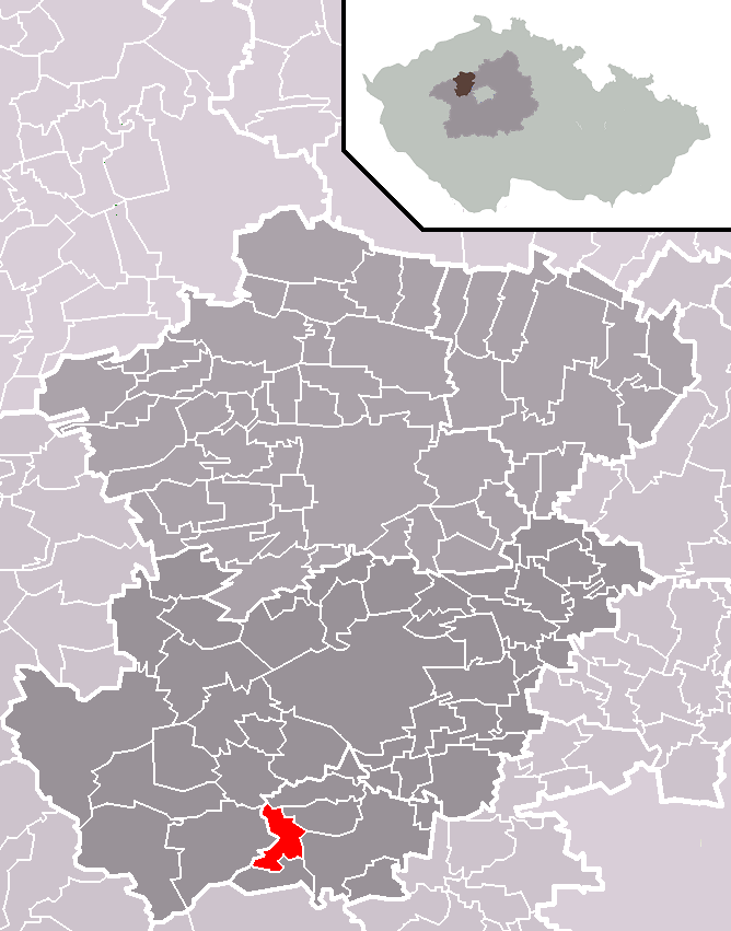 Location of Horní Bezděkov municipality within Kladno District and administrative area of Kladno as a Municipality with Extended Competence.